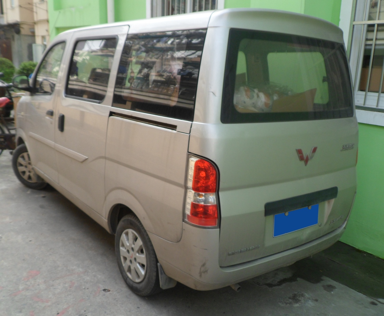 Wuling Hongtu photographed in Shanghai, China.